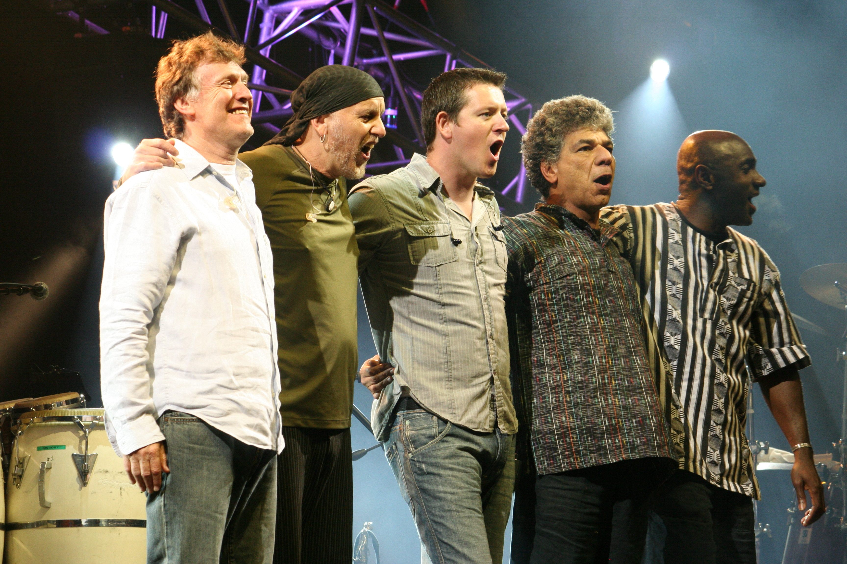 Steve Winwood Band Cropredy Festival, August 13 2009